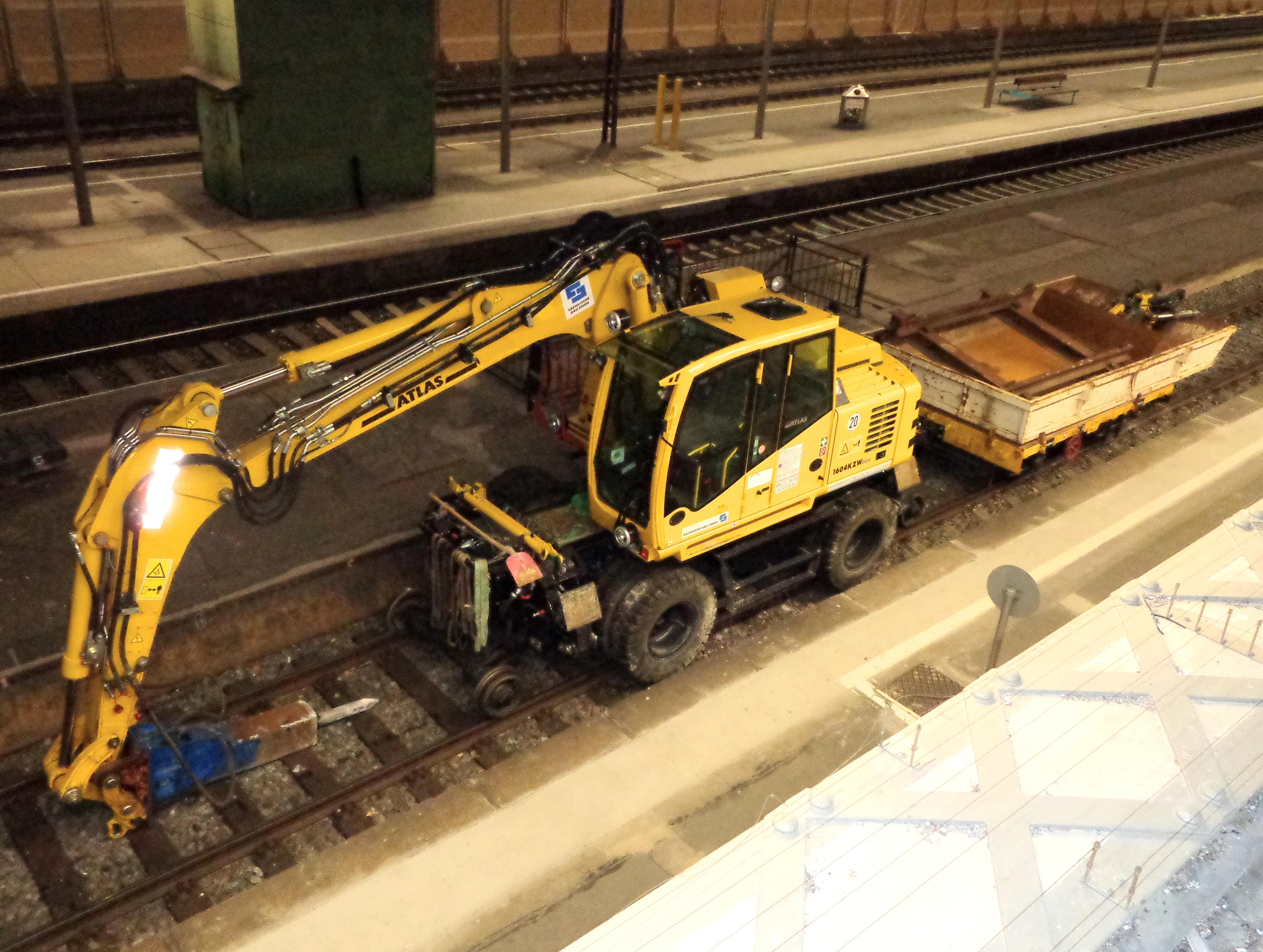 Road-rail dredge in Dresden